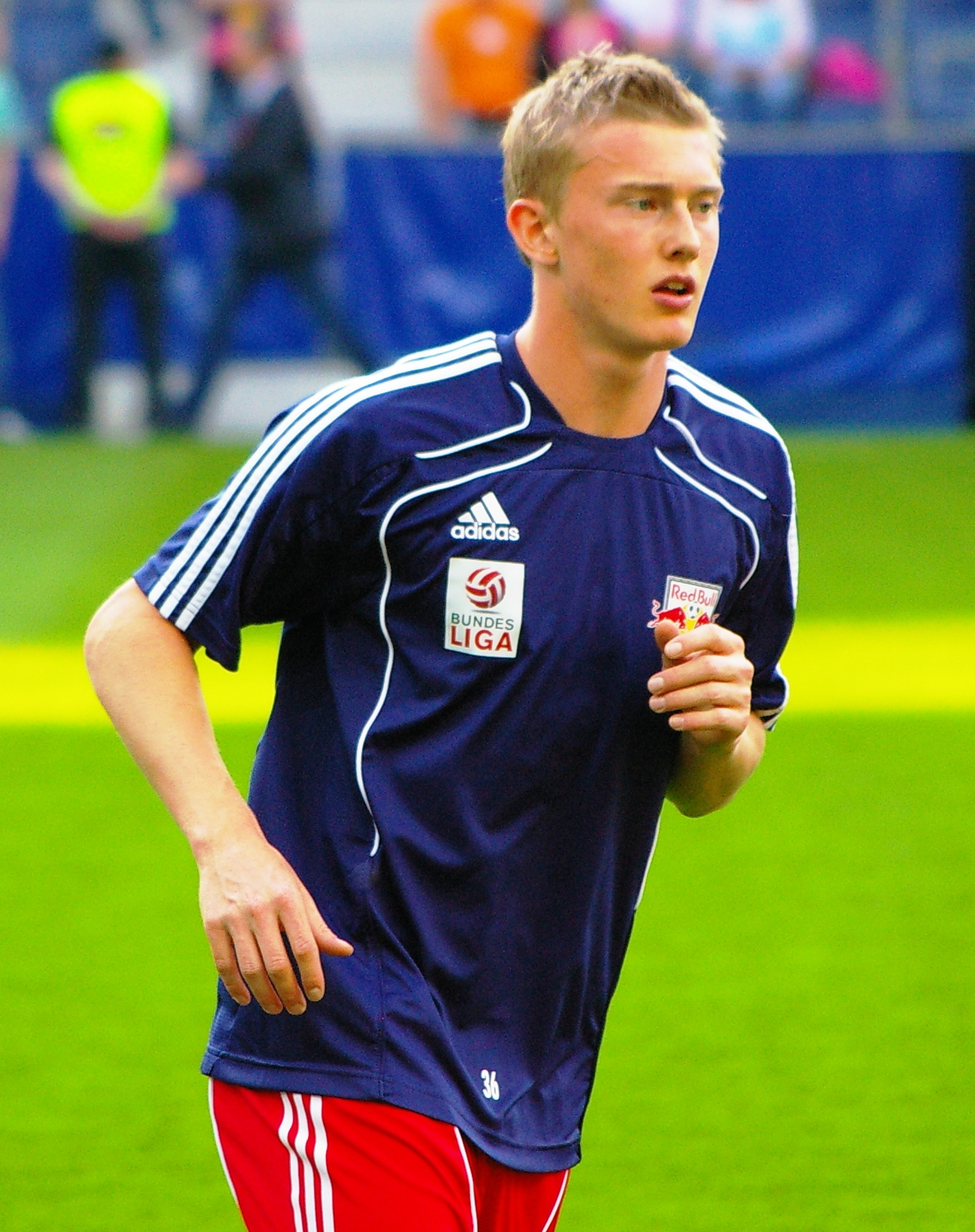 midfielder FC Salzburg